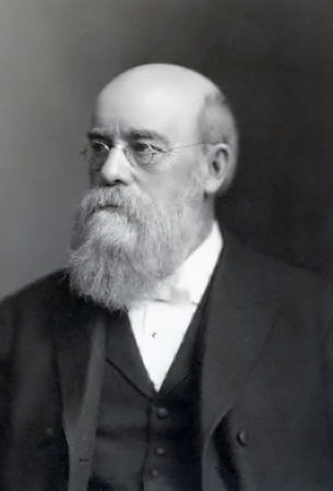 Washington Gladden (1836-1918)